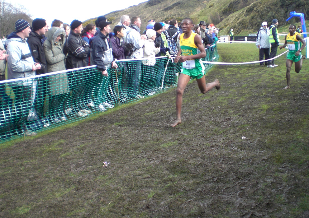 Barefooted Sityhilo Diko (RSA) - World Championships Cross Country 2006 in Edinburgh.